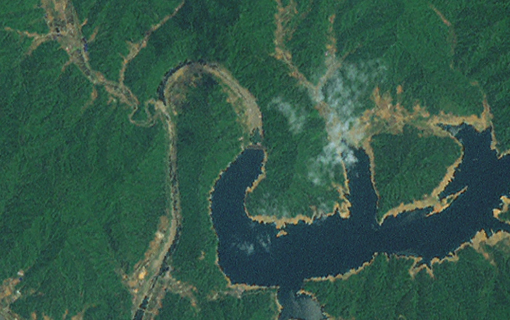 View of the Hwacheon Dam, from the NASA WorldWind program. LandSat 7 i-cubed overlay.